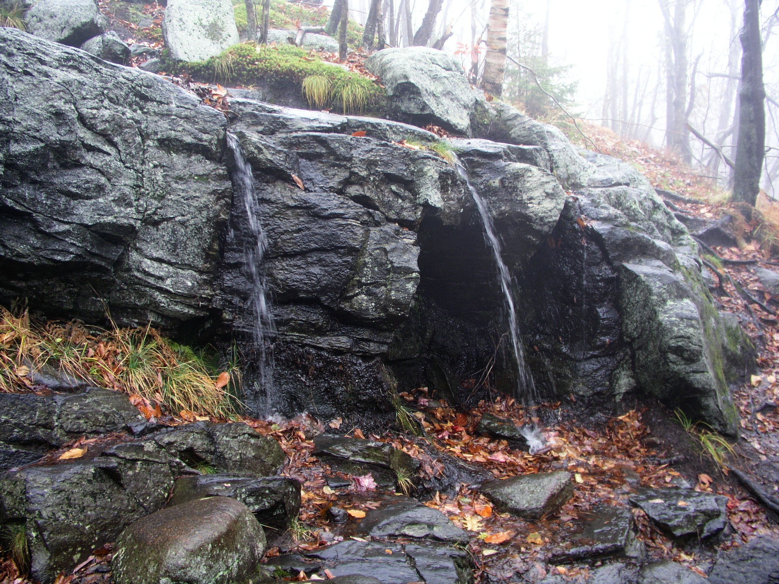 A small stream on the White Dot trail, Mount Monadnock, New Hampshire.